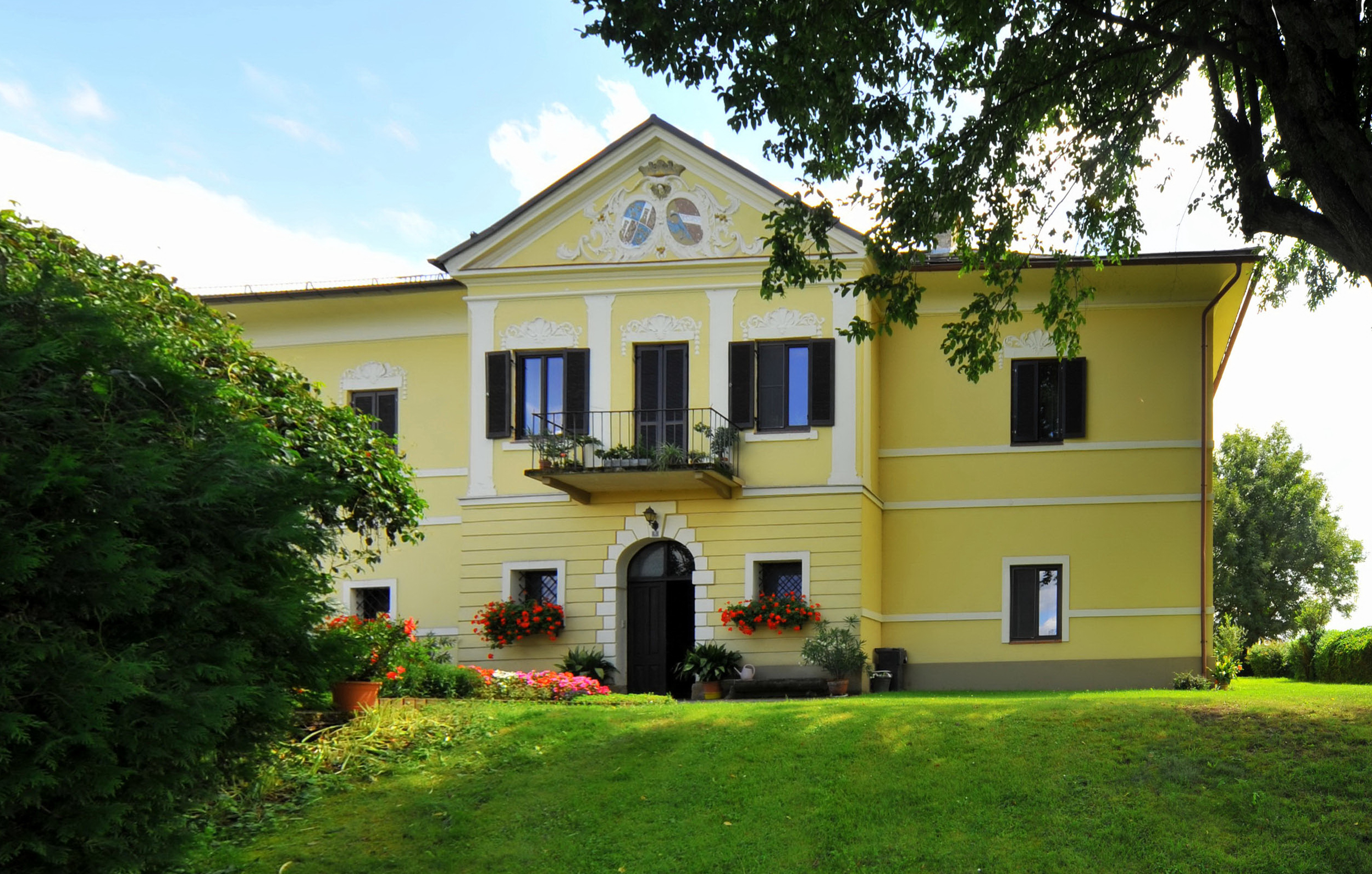 Western view of castle and farmstead "Töltschach" (owner: family Toff) in Töltschach, market town Maria Saal, district Klagenfurt Land, Carinthia, Austria, EU